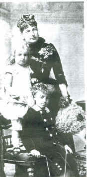 Louise Duchess Saxe-Coburg-Gotha with children:Leopold (1878-1916) and Dorothea-Maria (1881-1967)